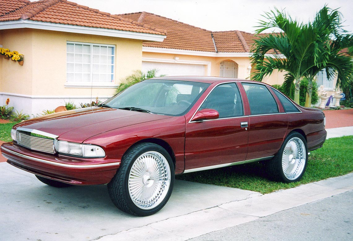 Customized 1995-1996 Chevrolet Caprice. Those wheels are way bigger than dubs, but the owner and/or photographer probably knows the size better.